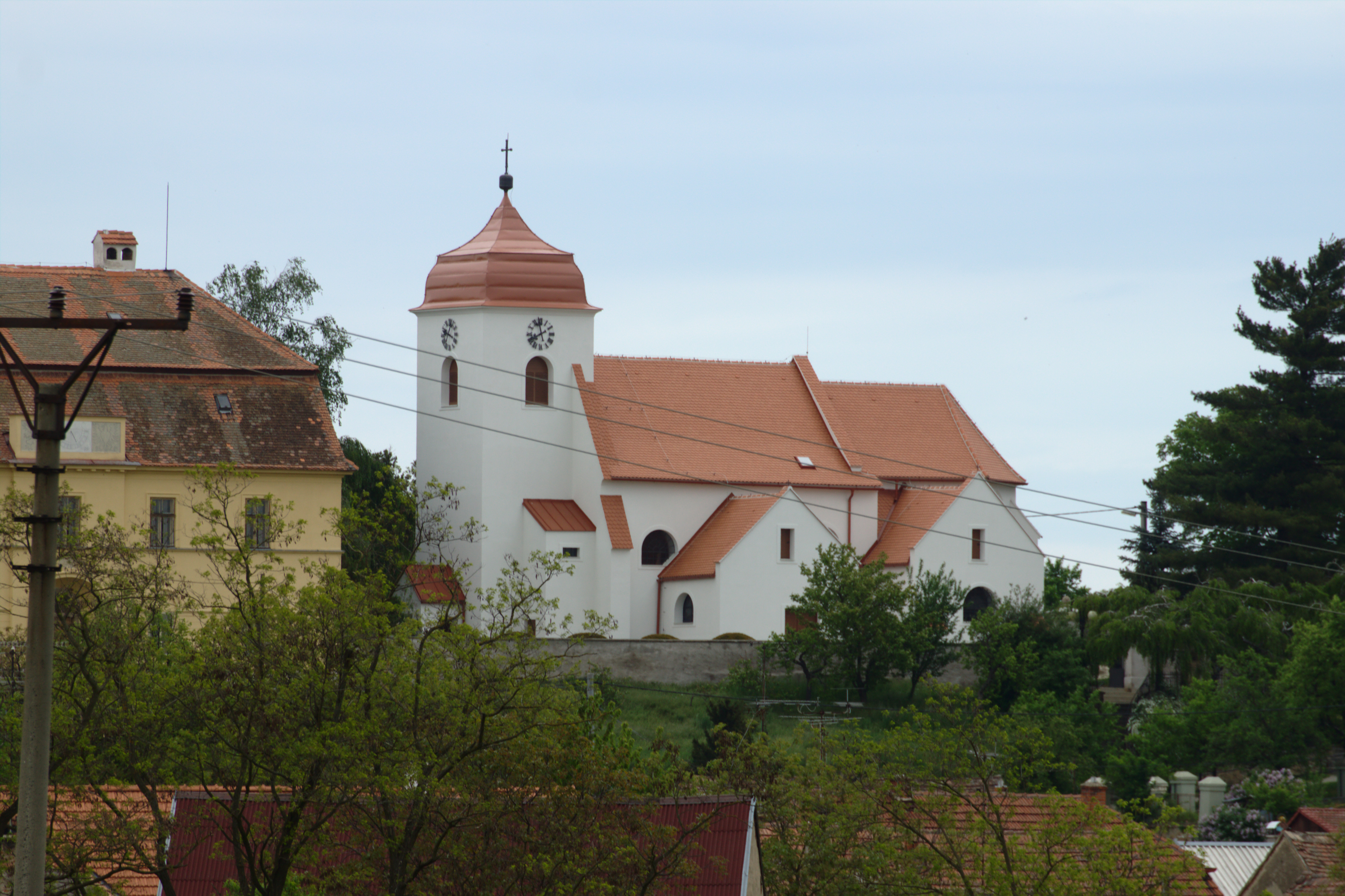 A church in the village of Žerotice, South Moravian Region, CZ